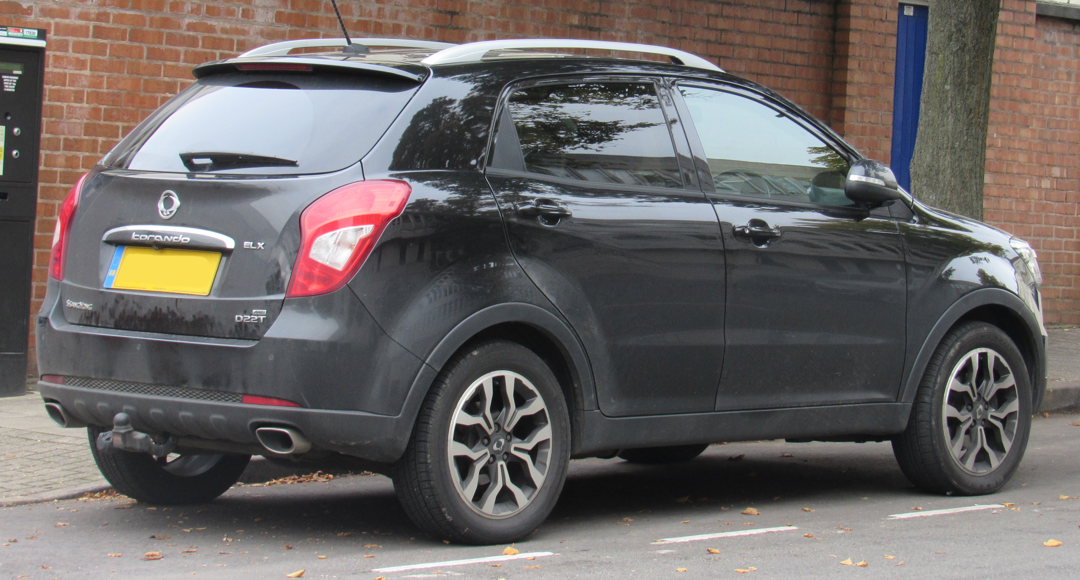 2016 SsangYong Korando ELX Automatic 2.2 Rear Taken in Leamington Spa